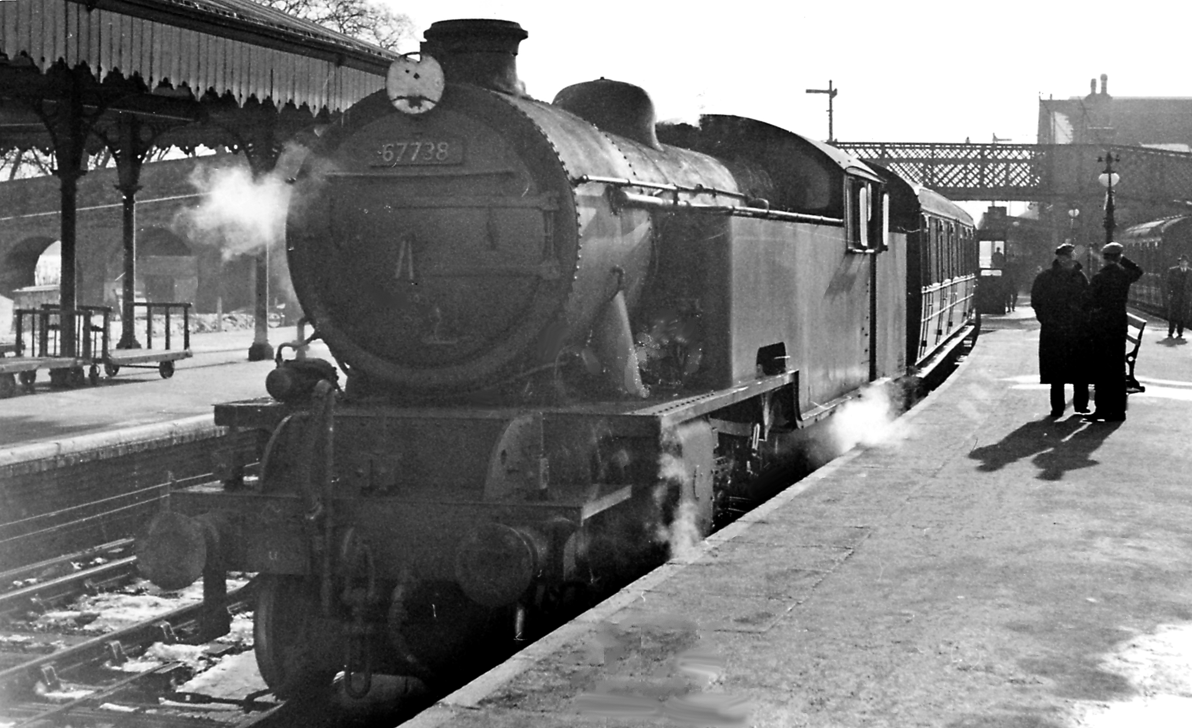 Thompson L1 2-6-4T at Beccles on the Lowestoft portion of an express from London. View southward, towards Ipswich and London: ex-GER East Suffolk main line: a mid-winter scene with snow lying around. To sample the Diesels just introduced, a friend and I travelled down on the 08.30 Liverpool Street - Yarmouth/Lowestoft. This was hauled by Type 2 Diesel No. D5500 to Ipswich, where B17 4-6-0 No. 61622 took over to Yarmouth (South Town). We stopped off at Beccles and photographed L1 No. 67738 here, which was attached to the Lowestoft coaches. It was built 11/48 and withdrawn 7/61.